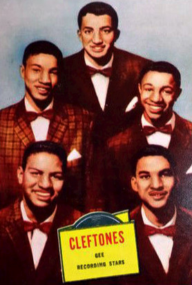 Trading card photo of The Cleftones. In 1957, Topps gum cards issued a series of movie stars, television stars and recording stars. They were part of their recording stars cards.